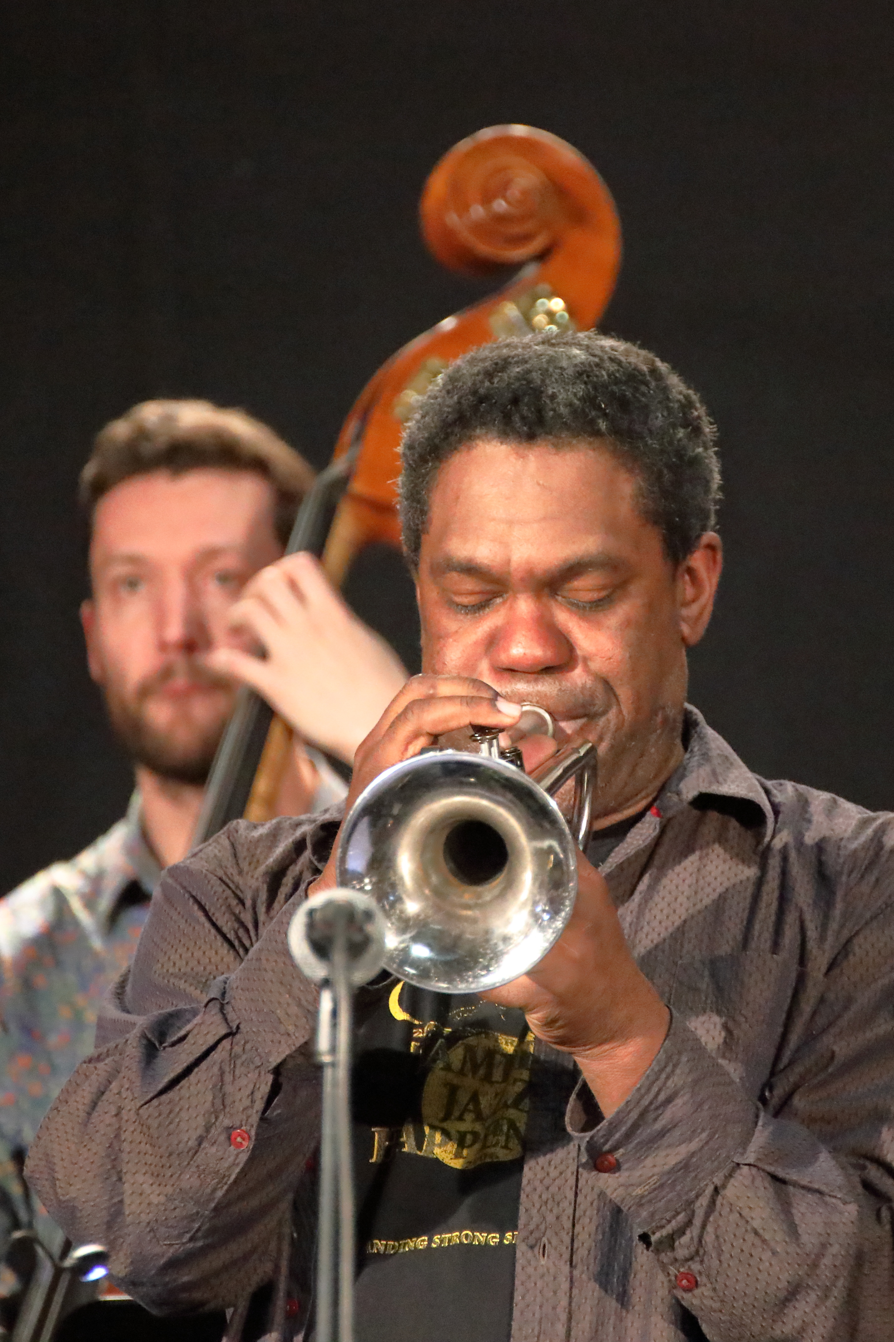 Trombone player Byron Wallen with Jean Toussaint Allstar Sextet performs Brother Raymond at INNtöne Jazzfestival 2019.